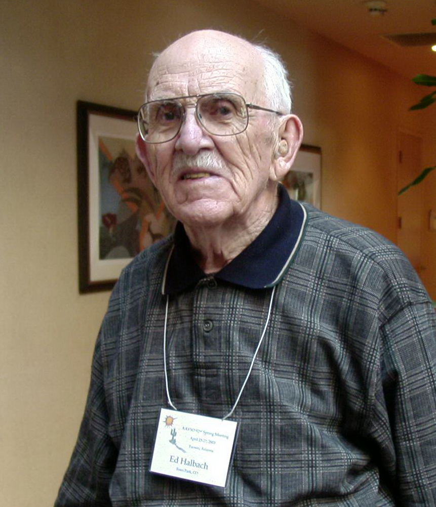 Ed Halbach in 2003 attending the Spring Conference of the AAVSO in Tucson, Arizona.